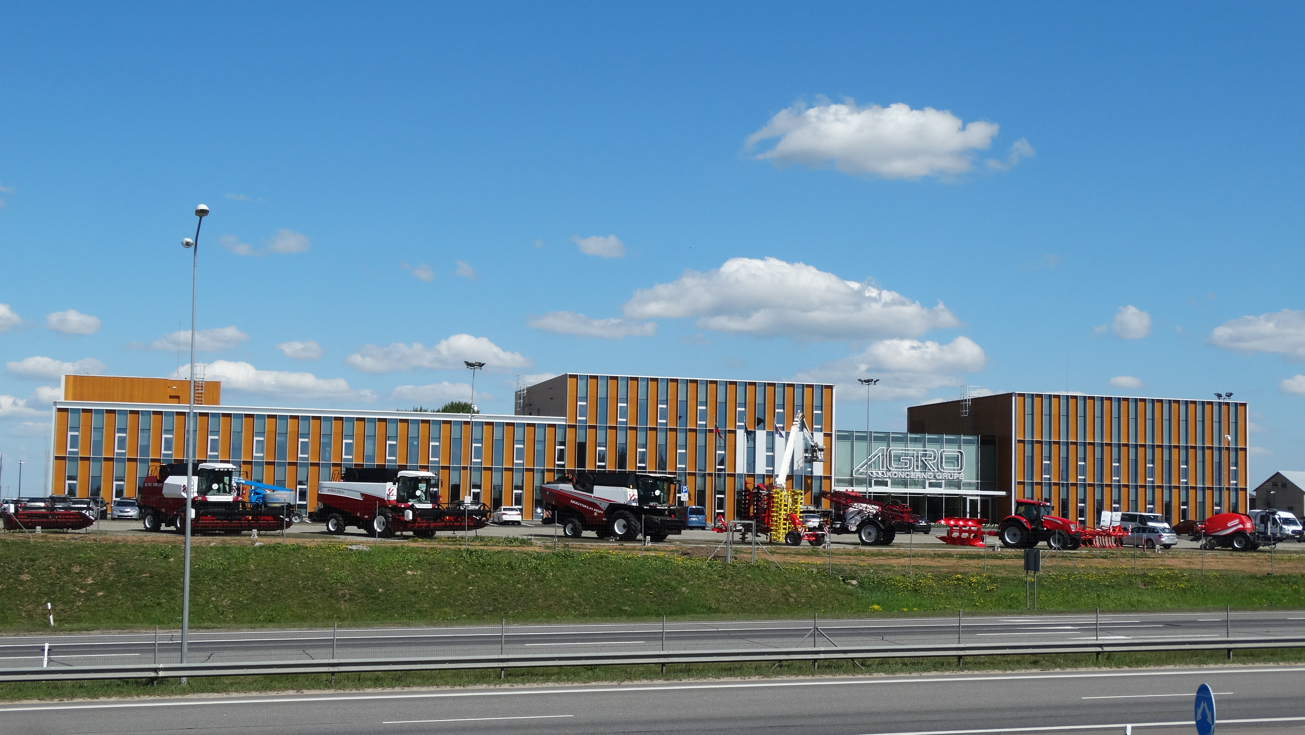 Agrokoncernas, Babtai, Kaunas district, Lithuania